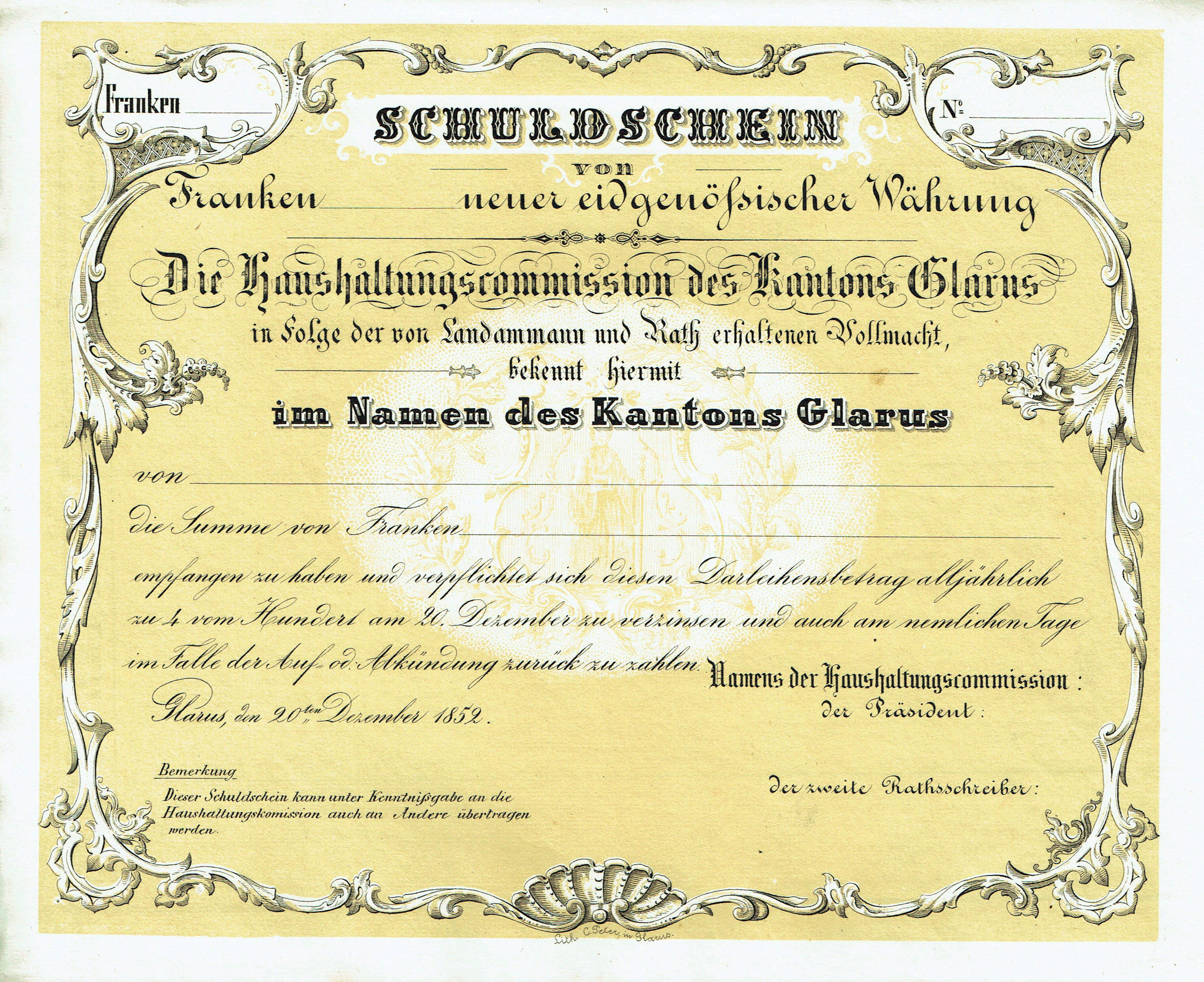 debenture of the canton Glarus from the 20. December 1852, unissued